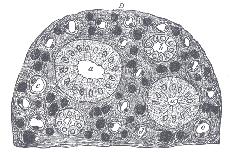 Transverse section of pyramidal substance of kidney of pig, the blood vessels of which are injected. a. Large collecting tube, cut across, lined with cylindrical epithelium. b. Branch of collecting tube, cut across, lined with cubical epithelium. c, d. Henle’s loops cut across. e. Bloodvessels cut across. D. Connective tissue ground substance.